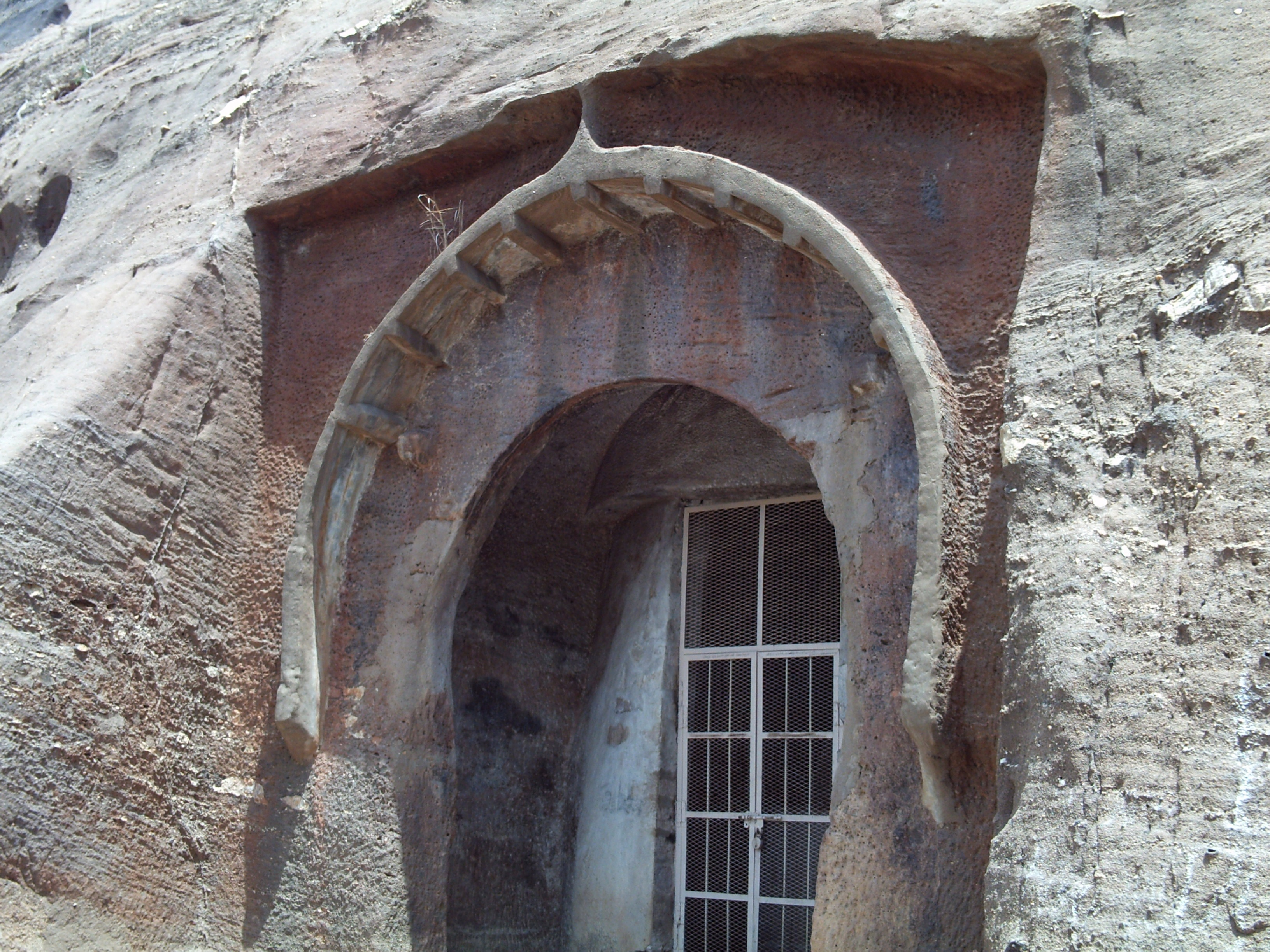 Buddhist monuments Rock-cut temple